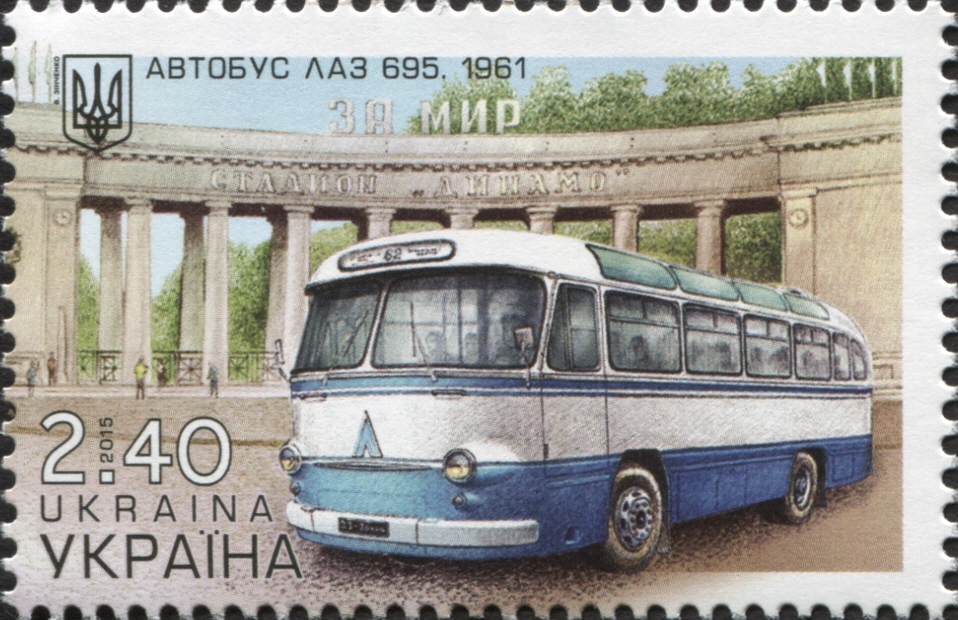 Stamps of Ukraine, 2015